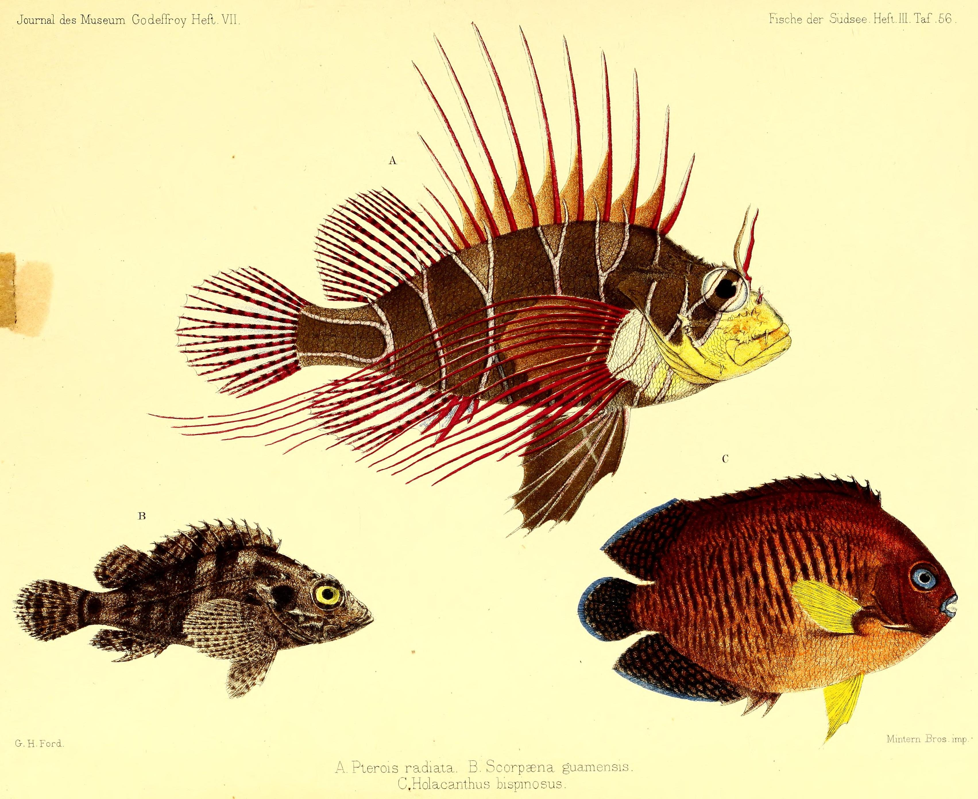 A. Pterois radiata, B. Scorpaenodes guamensis syn. Scorpaena guamensis, C. Centropyge bispinosa syn. Holacanthus bispinosus Title: Andrew Garrett's Fische der Südsee Year: 1873 (1870s) Authors: Garrett, Andrew; Günther, Albert C. L. G. (Albert Carl Ludwig Gotthilf), 1830-1914; Ford, G. H. (George Henry), 1809-1876, ill; Library of Congress, former owner. DSI Subjects: Fishes; Fishes; Natural history Publisher: Hamburg : L. Friederichsen & Co. Text Appearing Before Image: ' Text Appearing After Image: '